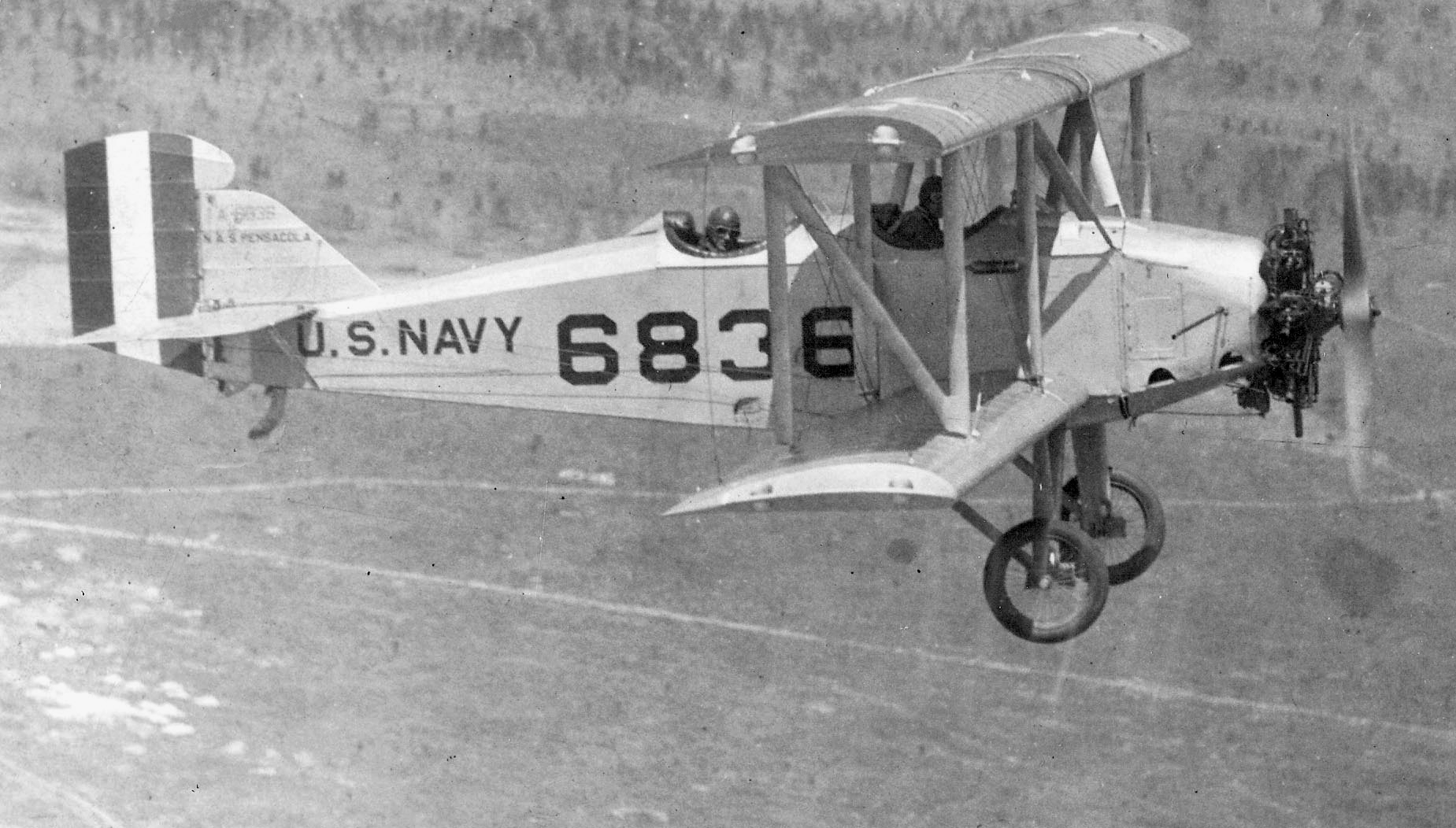 A U.S. Navy Boeing NB-1 (BuNo A-6836) training airplane from Naval Air Station Pensacola, Florida (USA), in flight. The Boeing NB (or Model 21) was a primary training aircraft developed for the United States Navy in 1924.